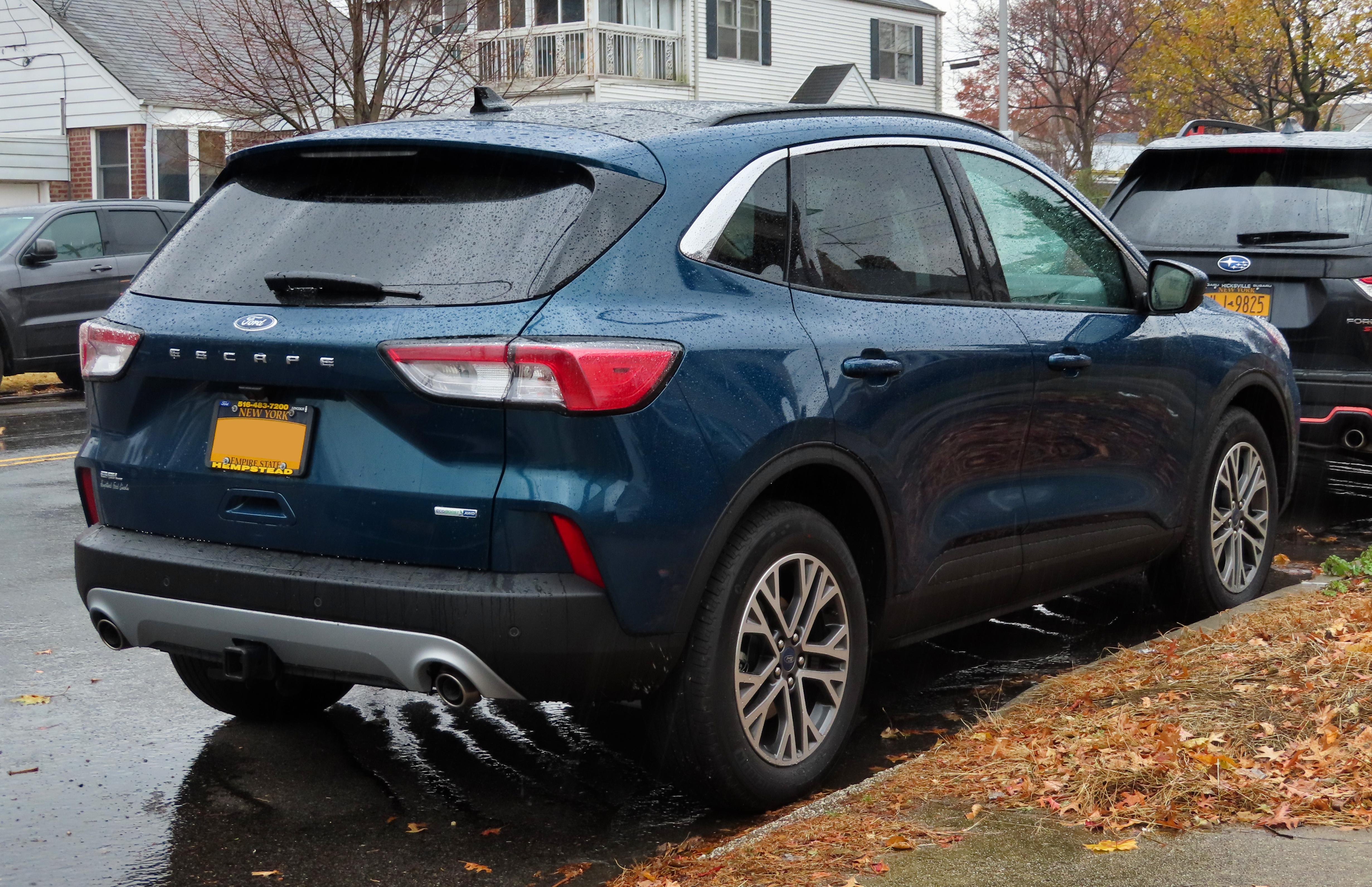 A 2020 Ford Escape SEL EcoBoost photographed in Fresh Meadows, Queens, New York, USA